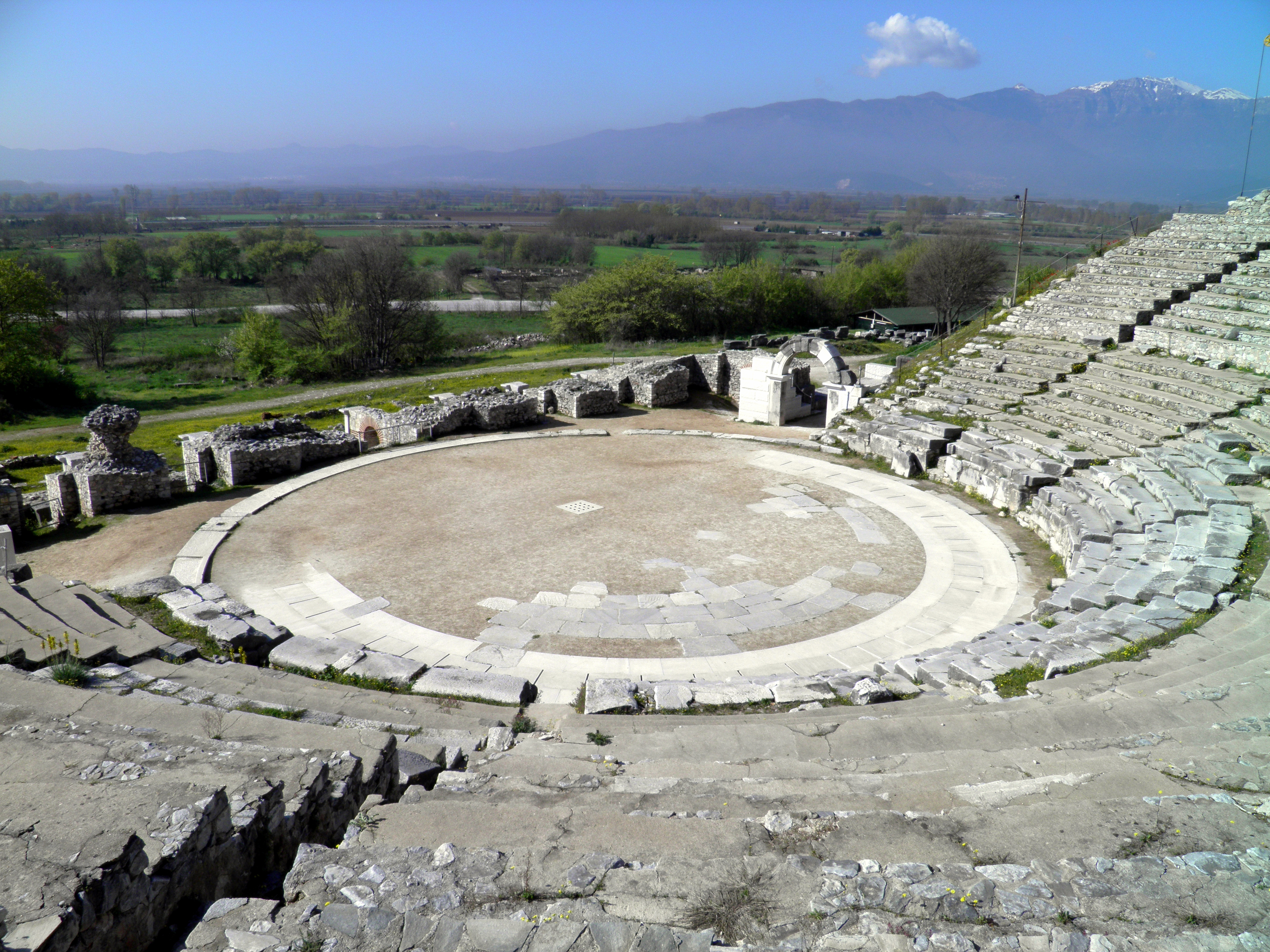 The ancient Theatre of Philippi is a remarkable and important monument. It is located at the foot of the acropolis and it is supported on the eastern wall of the city of Philippi. Even though it has undergone many changes over the centuries and some interventions it still preserves many of its original elements. The first phase of the theatre dates back in the reign of Philip II in 356 BC. At that time the orchestra was u-shaped. During Roman colonization changes were made to the theater in order to become suitable for the requirements of the new shows. The orchestra was floored with marble slabs and a high wall was built to protect the spectators during beast fights. Eventually in the 3rd Century A.D. the Theatre becomes an arena for beast fights. During the Christian times the habits and morals of the people changed so the theater was abandoned. Nowadays, many parts of the theatre are saved untouched still many restoration works are done so the annual Philippi Festival can take place.